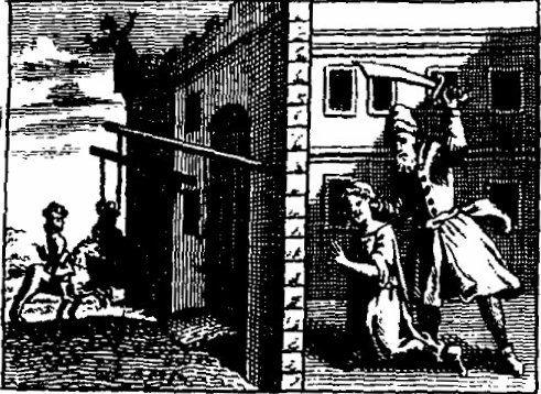 Illustration of Blue Beard from a British edition of Perrault's fairy tales entitled Histories, or tales of past times, London: printed for J. Pote; and R. Montagu